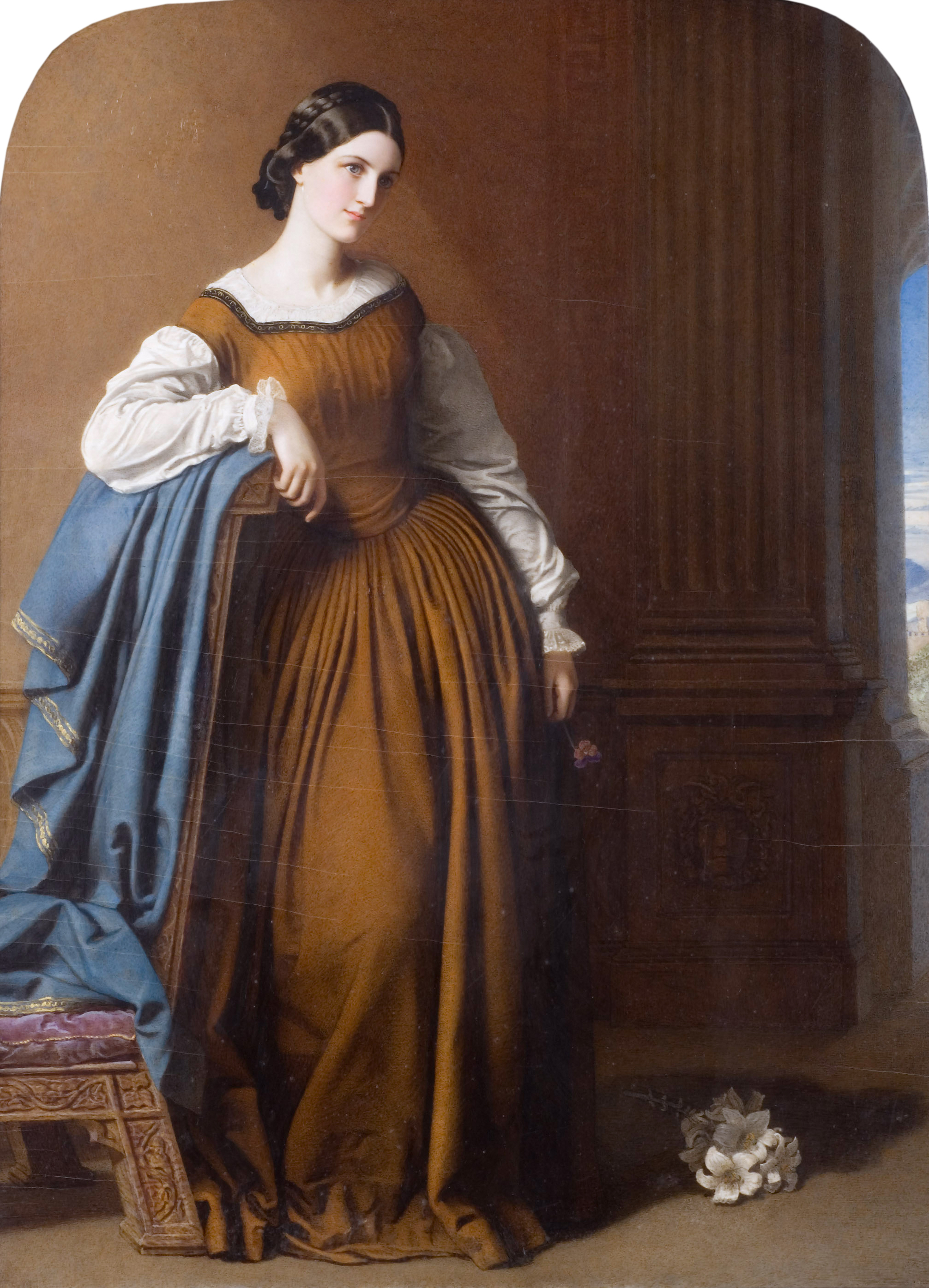 Mrs Georgina Maria Grenfell watercolor on ivory 45.8 x 34 cm